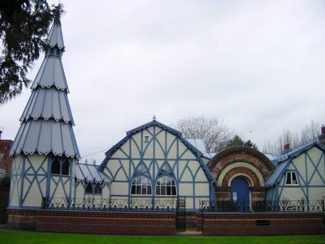 The Pump Rooms, Tenbury Wells, Worcestershire, England.